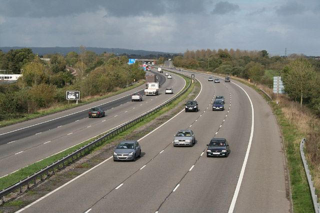 M5 motorway, near Cullompton, Devon, England.